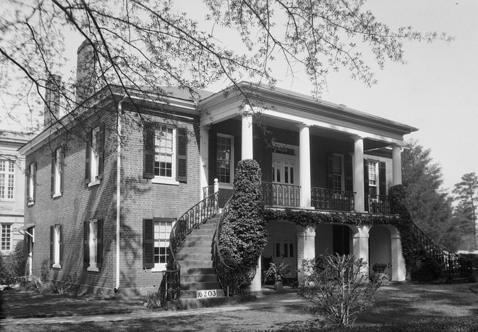 University of Alabama, Josiah Gorgas House, Ninth Avenue & Capstone Drive, Tuscaloosa, Tuscaloosa County, AL. FRONT VIEW. - EAST ELEVATION HABS ALA,63-TUSLO,3A-1.